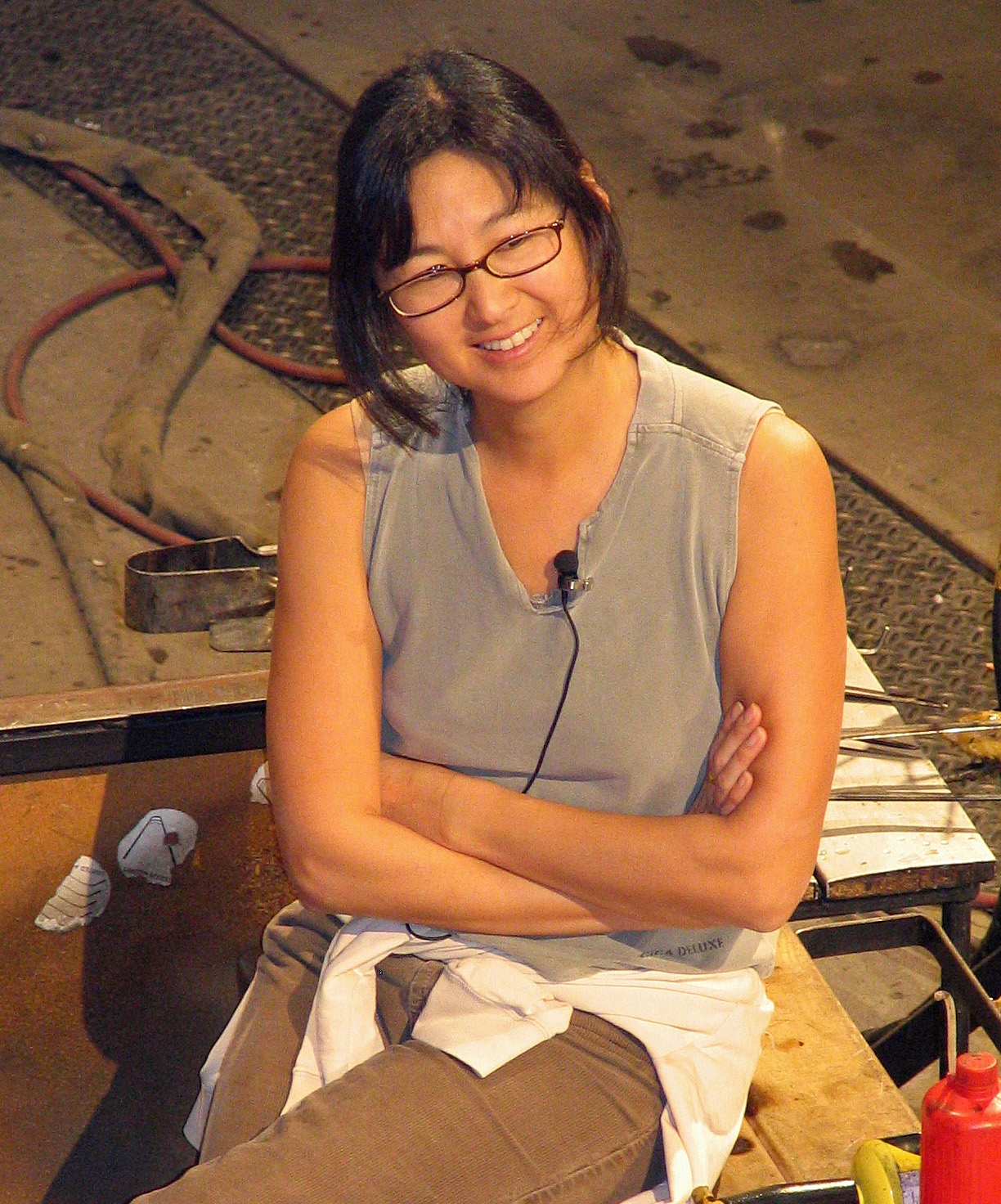 Maya Lin, architect and artist, brought her glass blowing team to the Museum of Glass. They are making water drops for a show at the Museum in July.